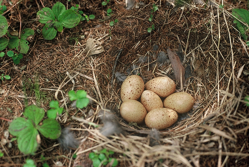 Nest and Clutch of Siberian Spruce Grouse